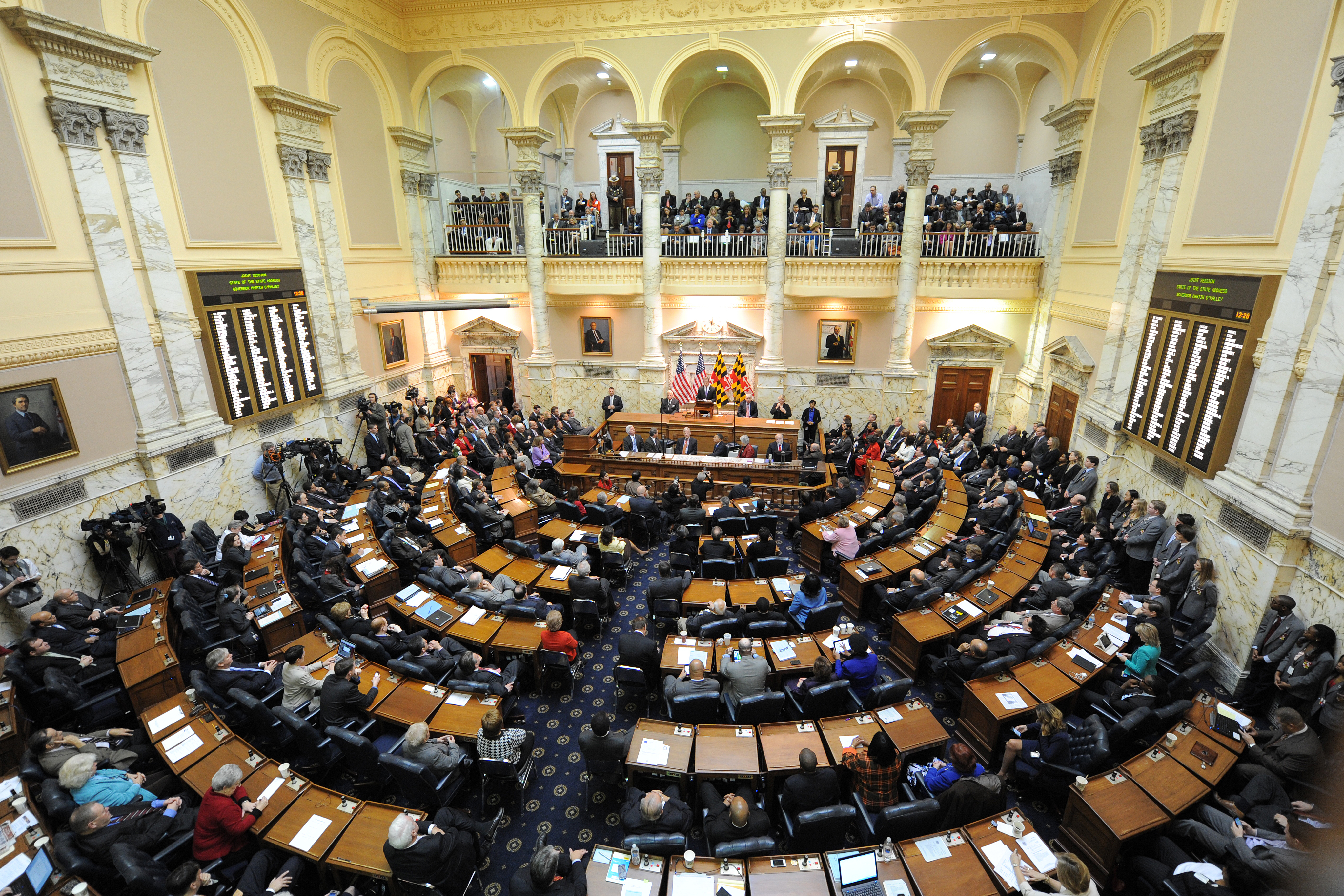 State of the State Address. by Jay Baker at Annapolis, Maryland